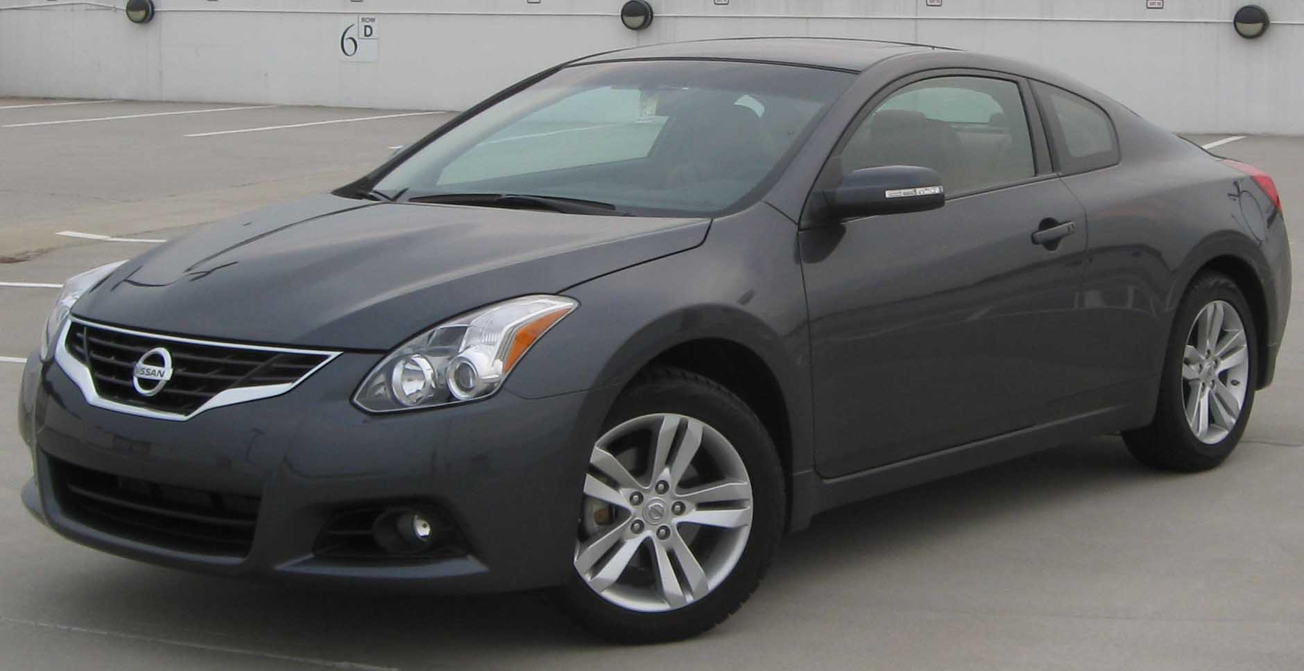 2010 Nissan Altima photographed in College Park, Maryland, USA.